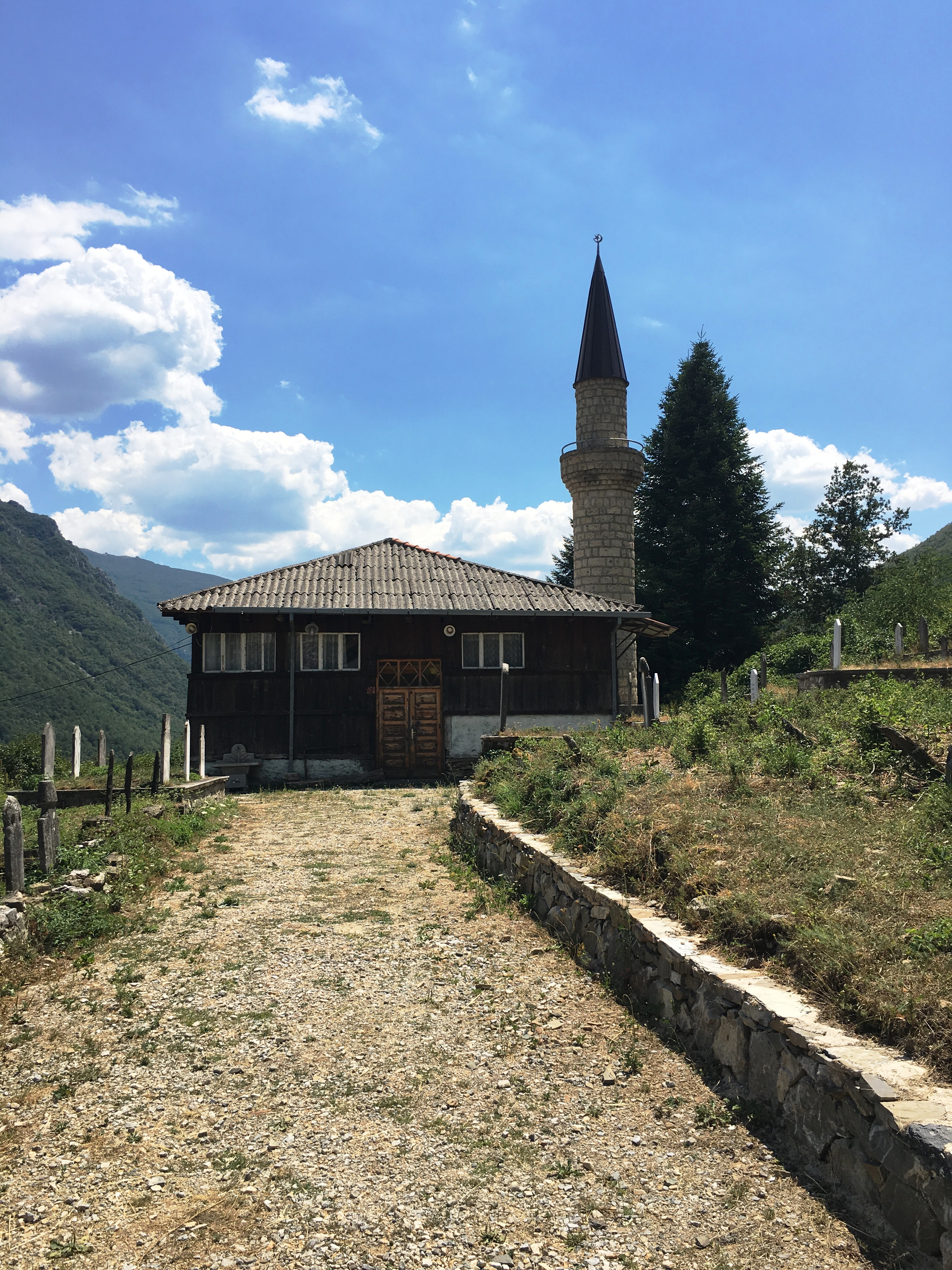 Old mosque in the village of Rostuše